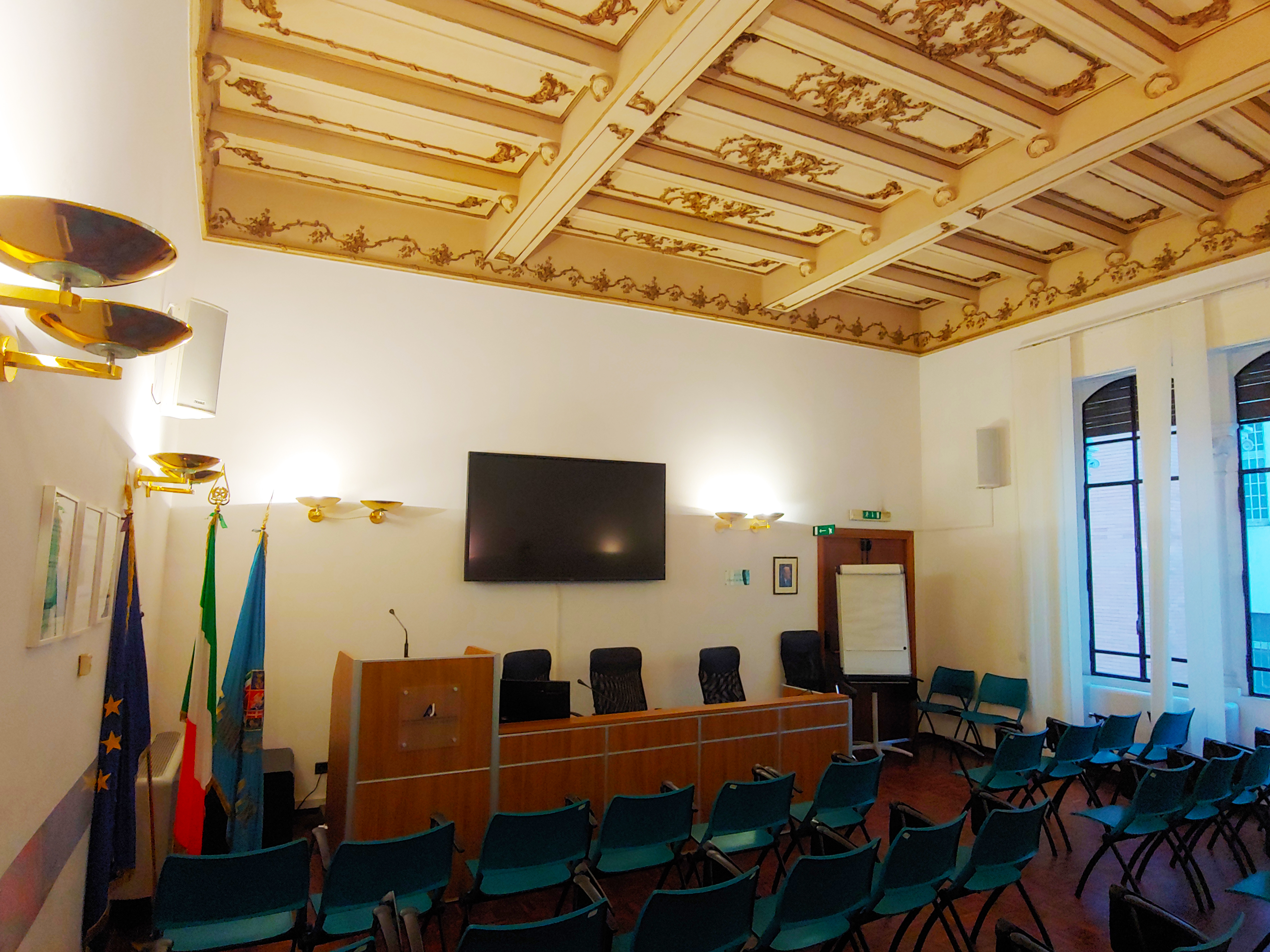 Alberto de Roberto Conference Room (Jemolo Institute)